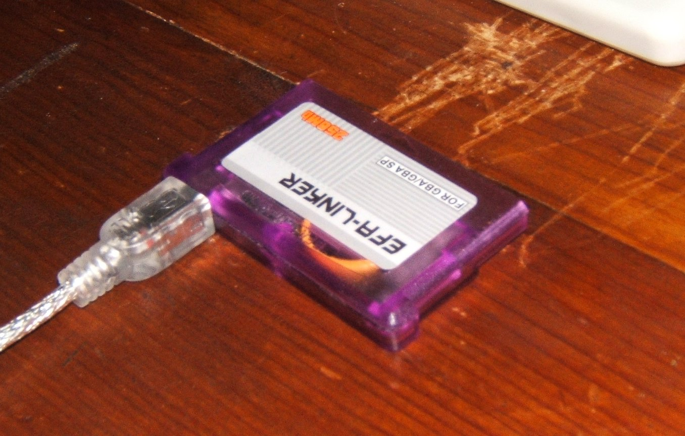 An EFA cartridge with the USB cable plugged in.